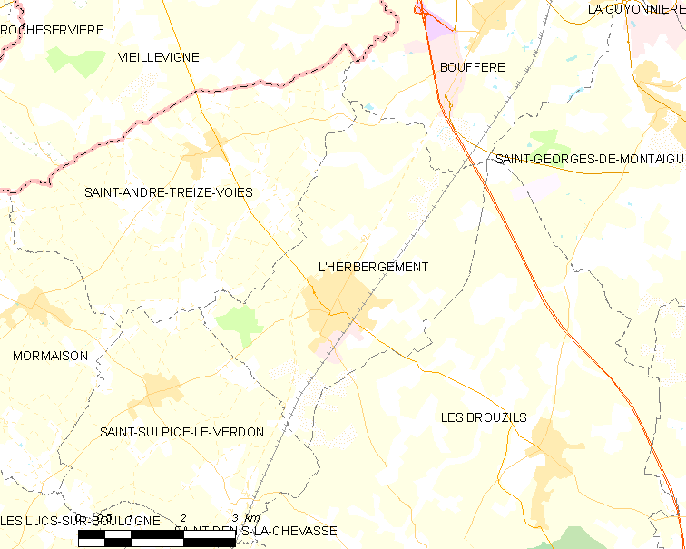 Map of French municipality L'Herbergement